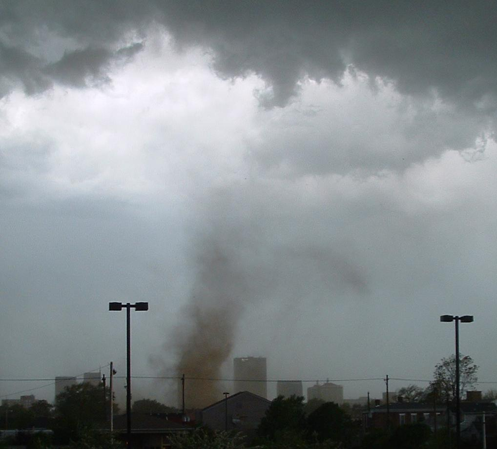 A tornado with no visible condensation funnel in Louisville on April 22, 2005. Storm report can be found here[dead link]